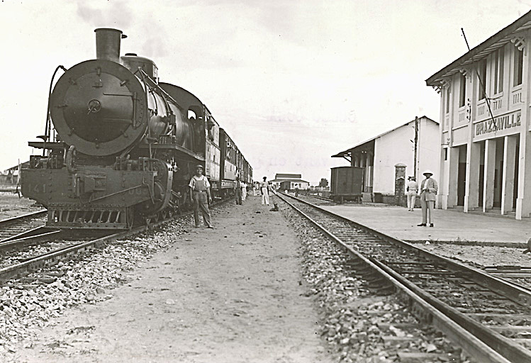 Congo-Ocean Railway, Brazzaville Station, December 1932 Agence économique de la France d'outre-mer/Gouvernement général de l'Afrique équatoriale française, FR CAOM 30Fi73/30